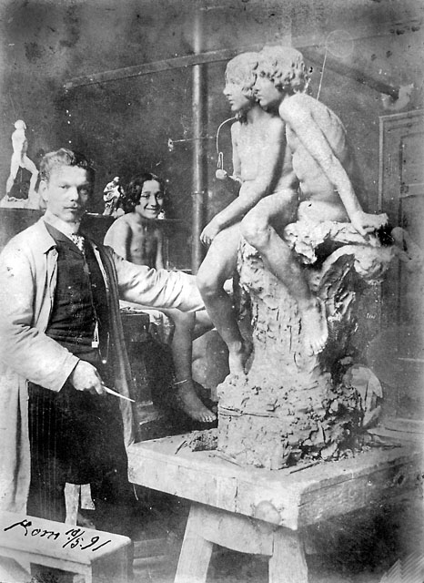 Sculptor Wilhelm Haverkamp in the Villa Strohl-Fern, 1891